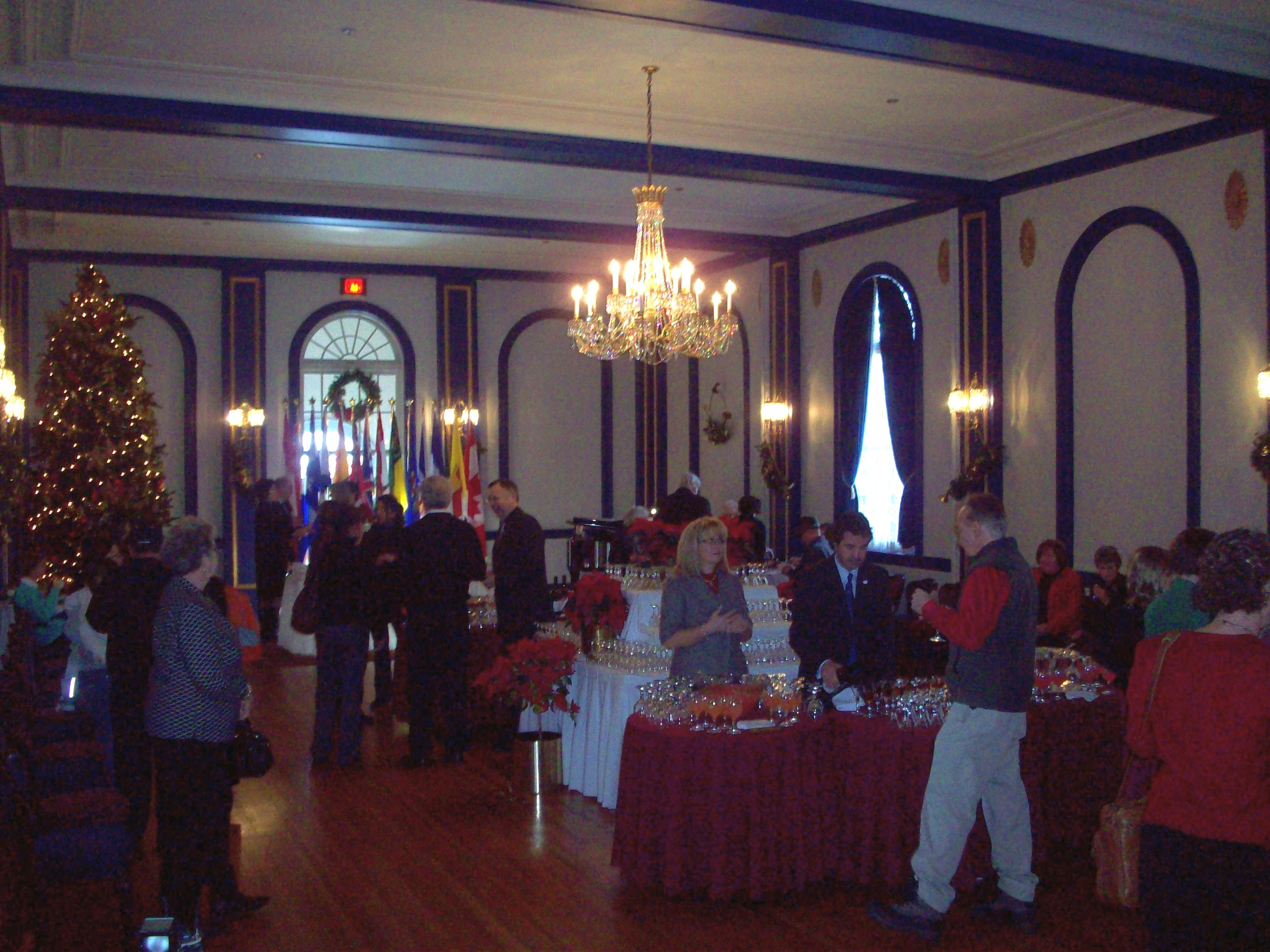 Government House Regina ballroom on New Year's Day